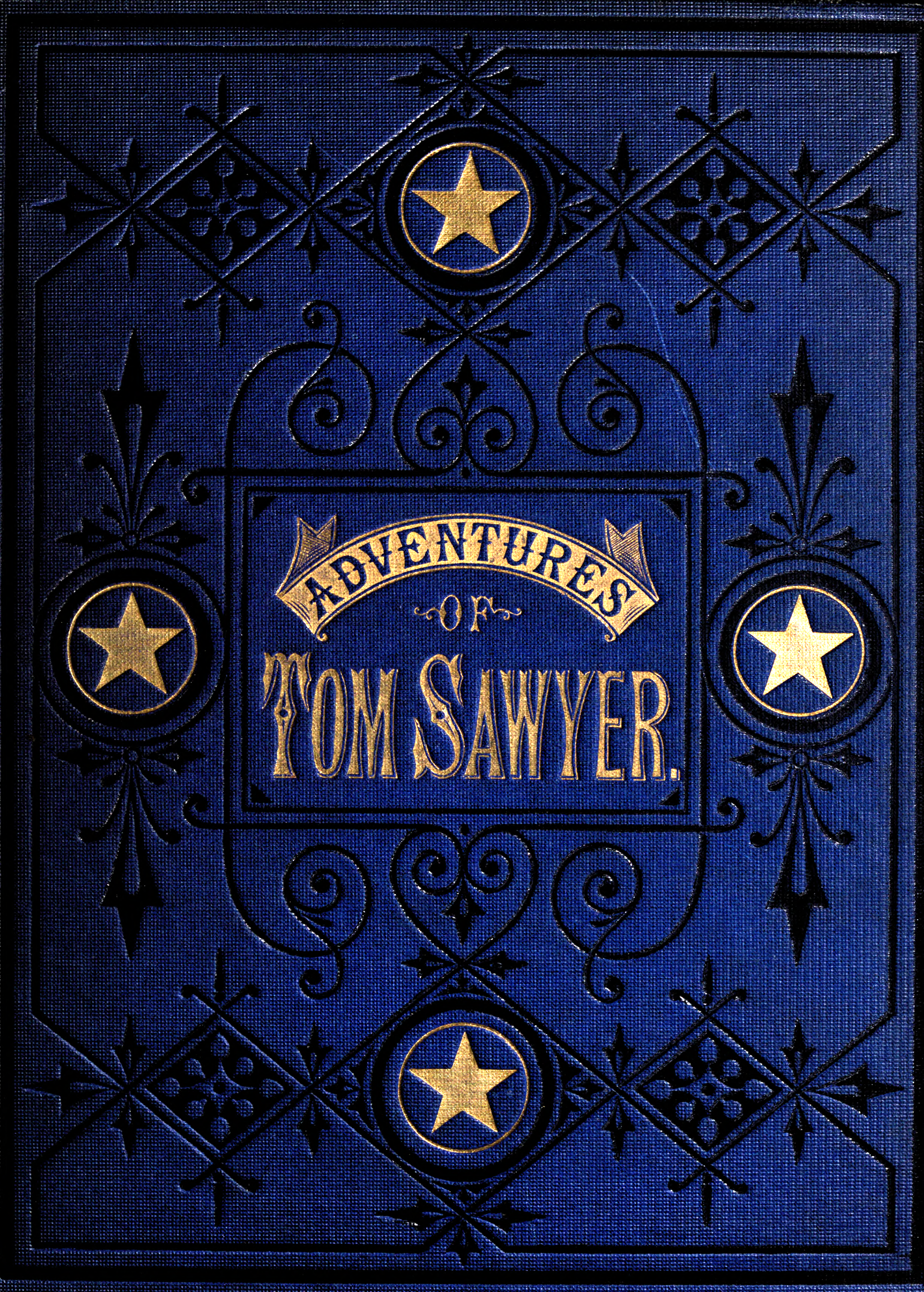 Scan of illustration from the book Adventures of Tom Sawyer, written by Mark Twain & illustrated by True Williams (Trueman W. Williams).